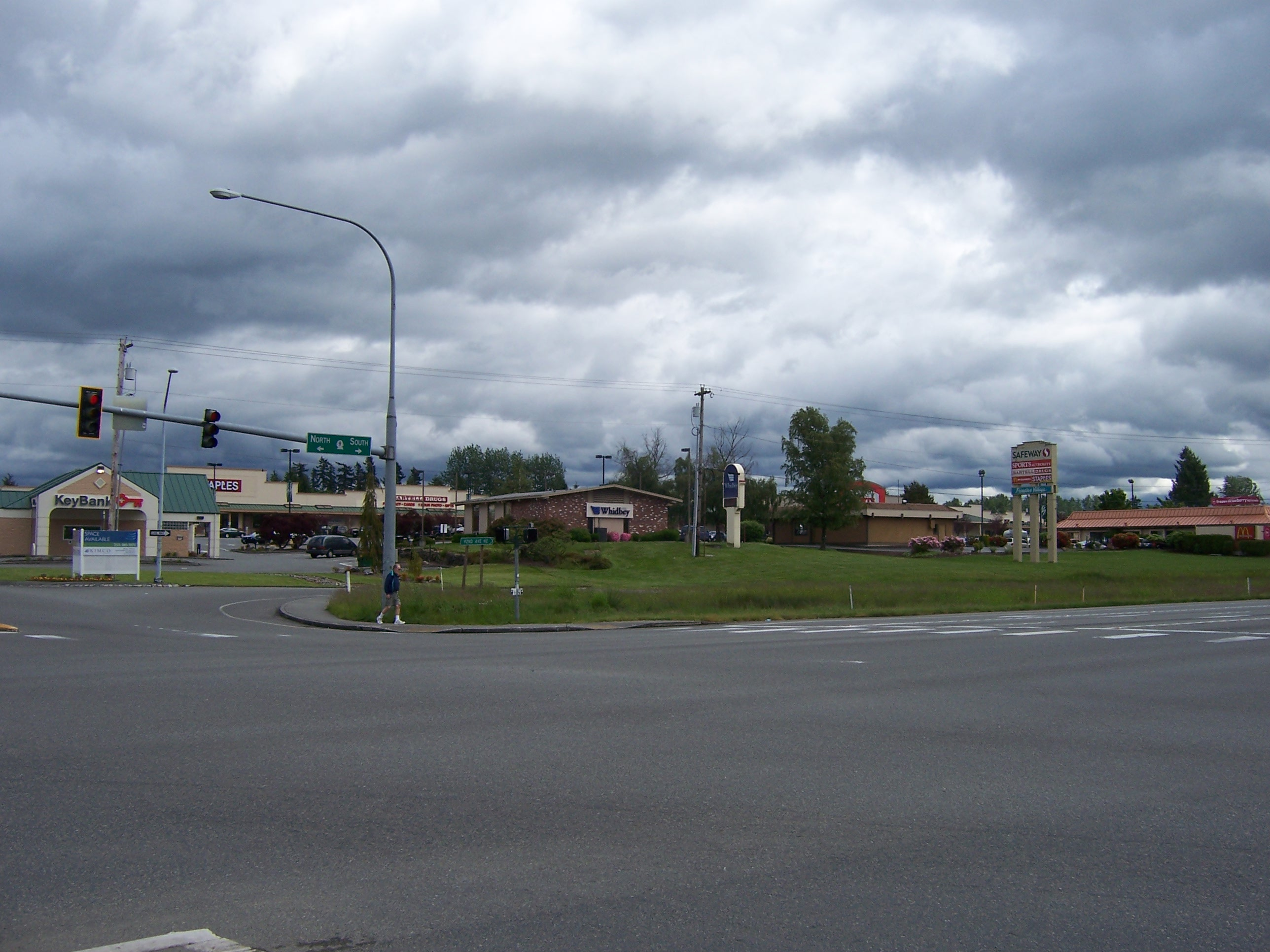 The Frontier Village Shopping Center in Frontier Village, Lake Stevens, Washington. Taken from the junction of Washington State Route 9 and Washington State Route 204.